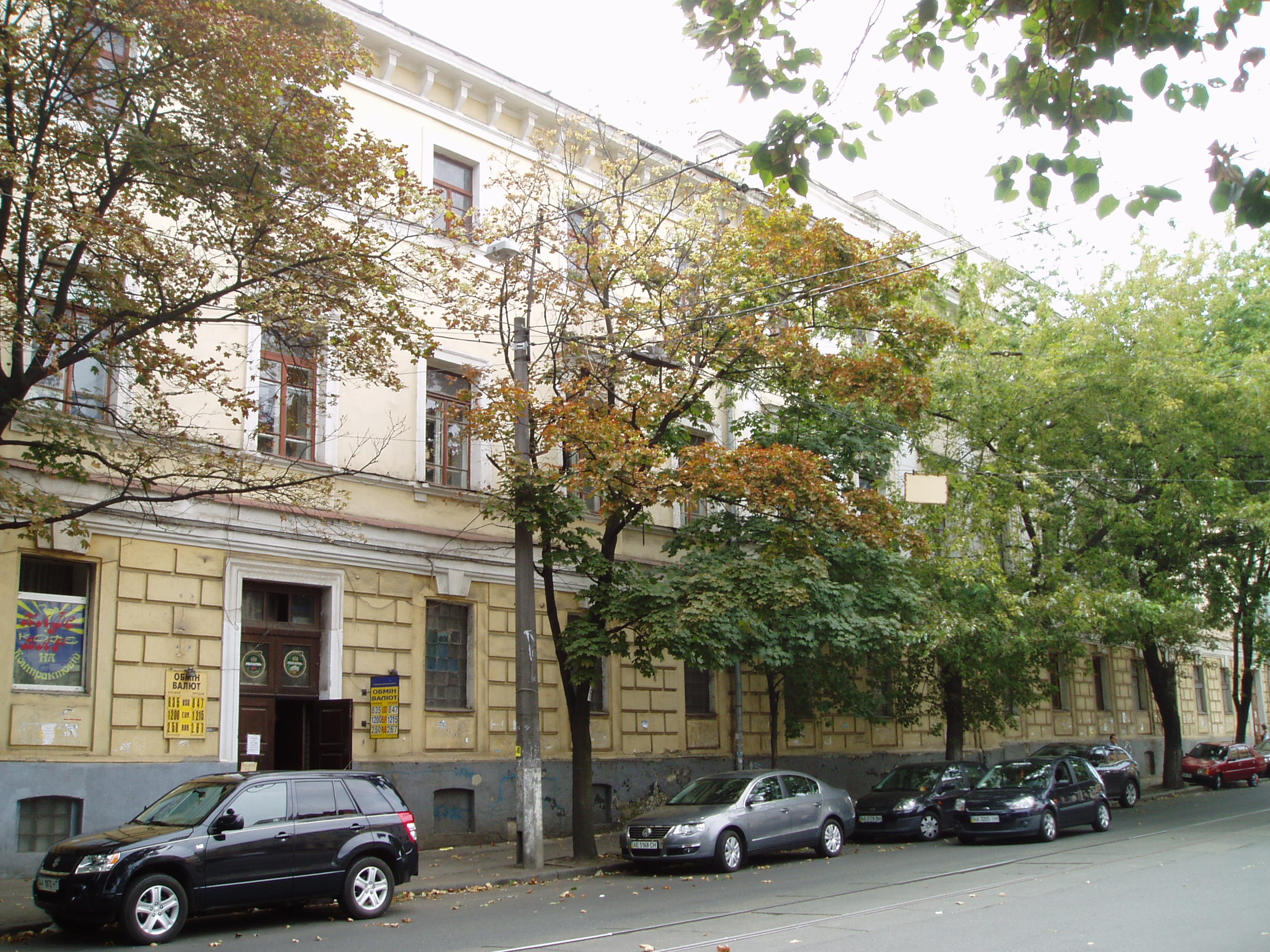 A building of a divinity school at Podil in Kyiv